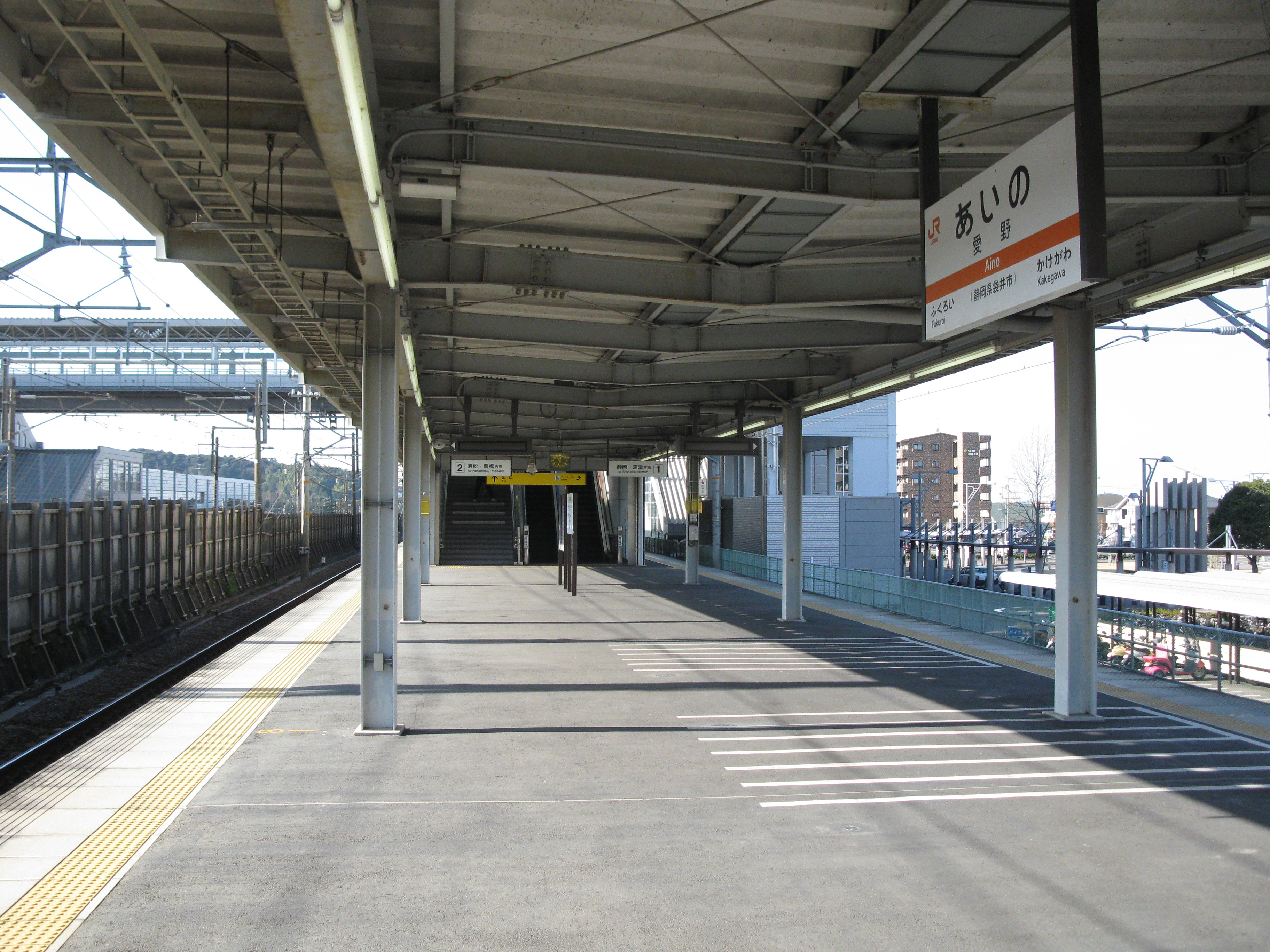 Aino Station platform (Central Japan Railway(JR Central) Tōkaidō Main Line)